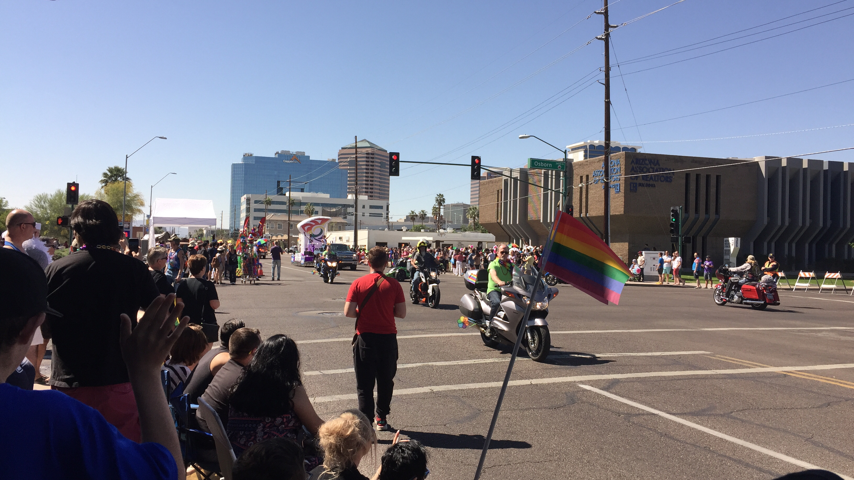 Participants at 2017 Phoenix Pride 中文（香港）: 一群參與2017年美國鳳凰城LGBTQ驕傲遊行 (Pride Parade) 的人。